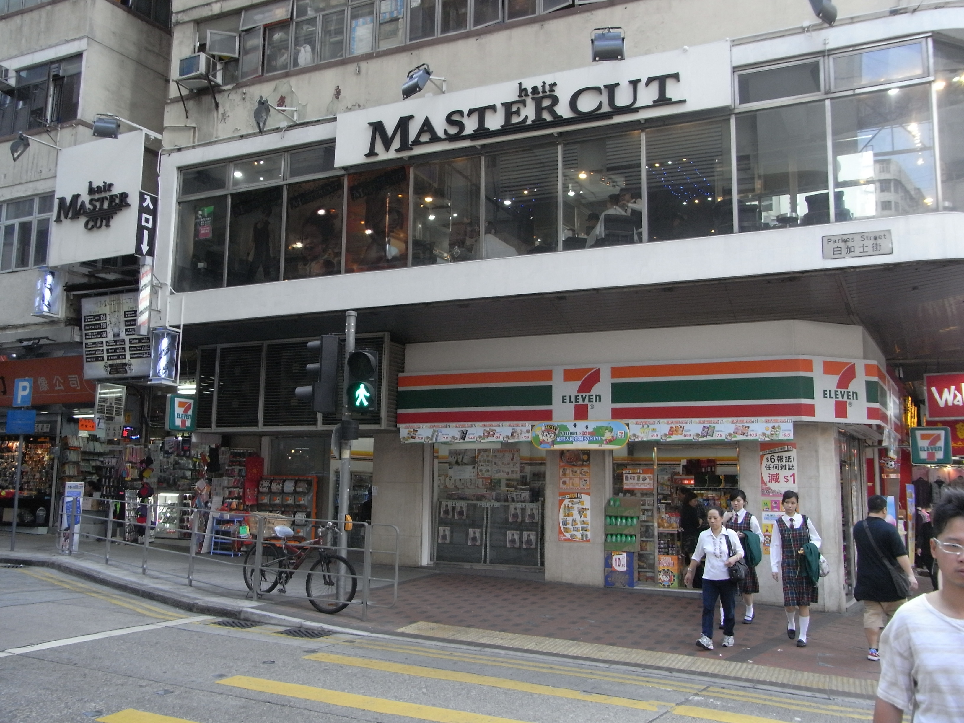 油麻地 白加士街 地鋪 7-Eleven & 上樓店